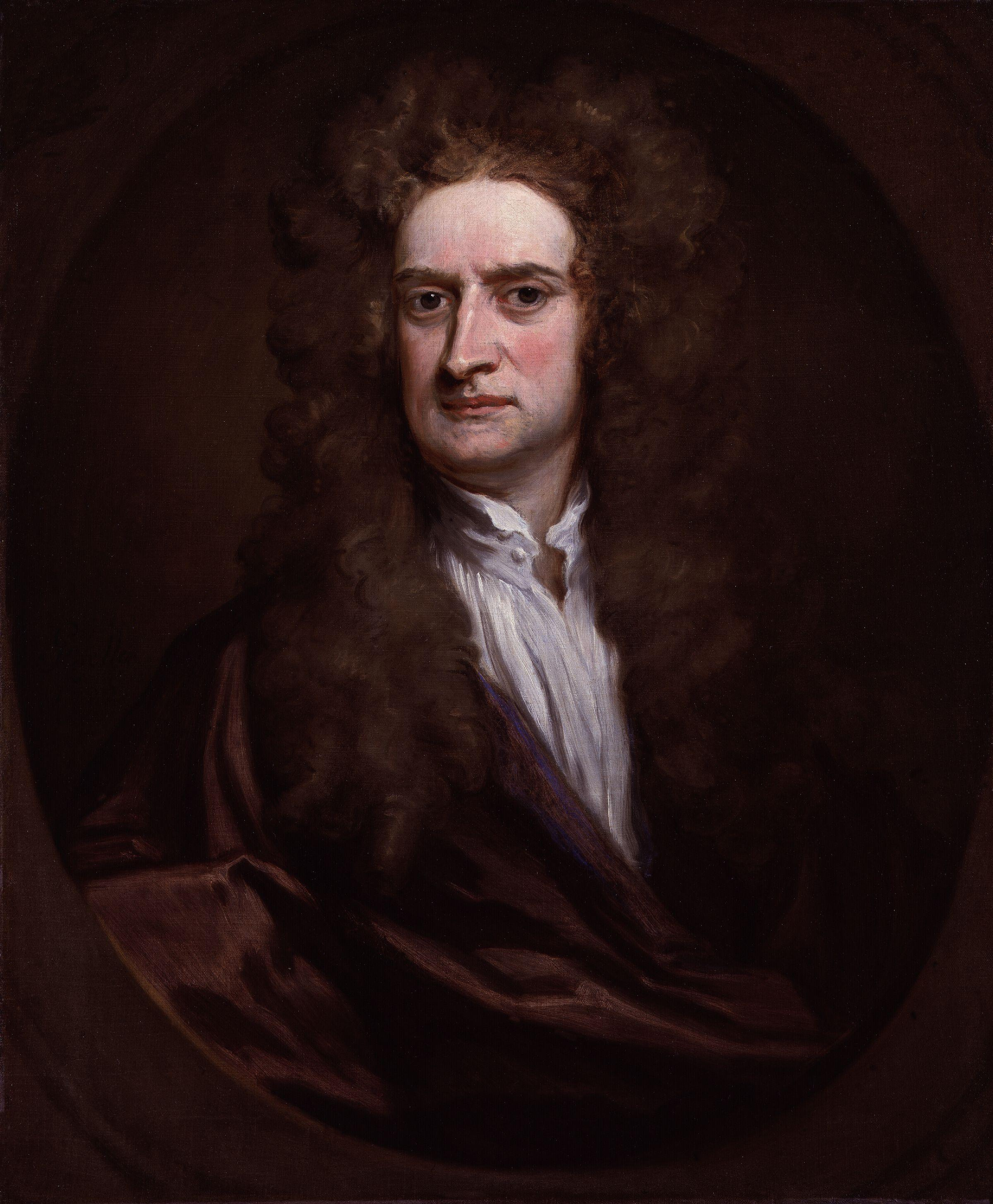 All images in this batch have been confirmed as author died before 1939 according to the official date listed by the NPG.